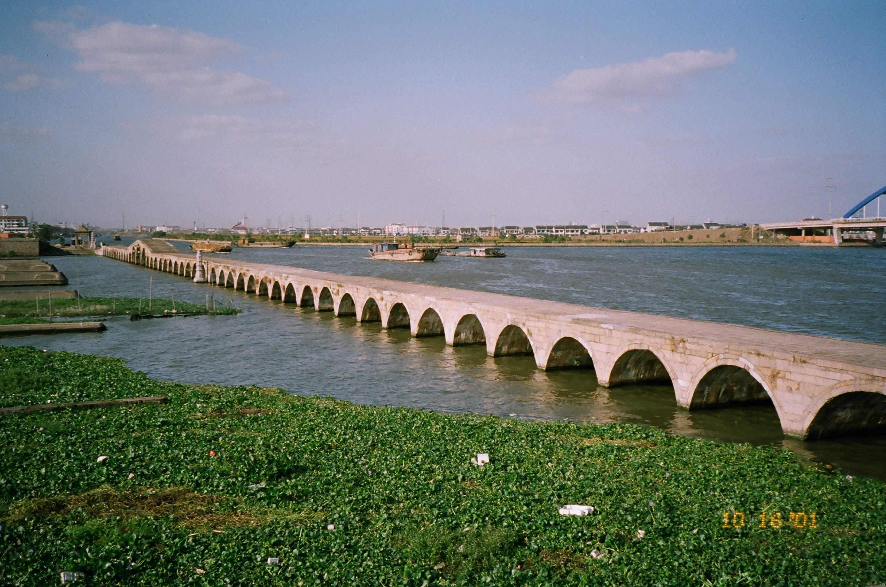 This is actually south of Suzhou. Took me FOREVER to find it (it's built much lower than its surroundings). But once I did--what romance! Barges on the Grand Canal, nice weather . . . and my lonesome self. :( Dig the styrofoam litter. Double :(